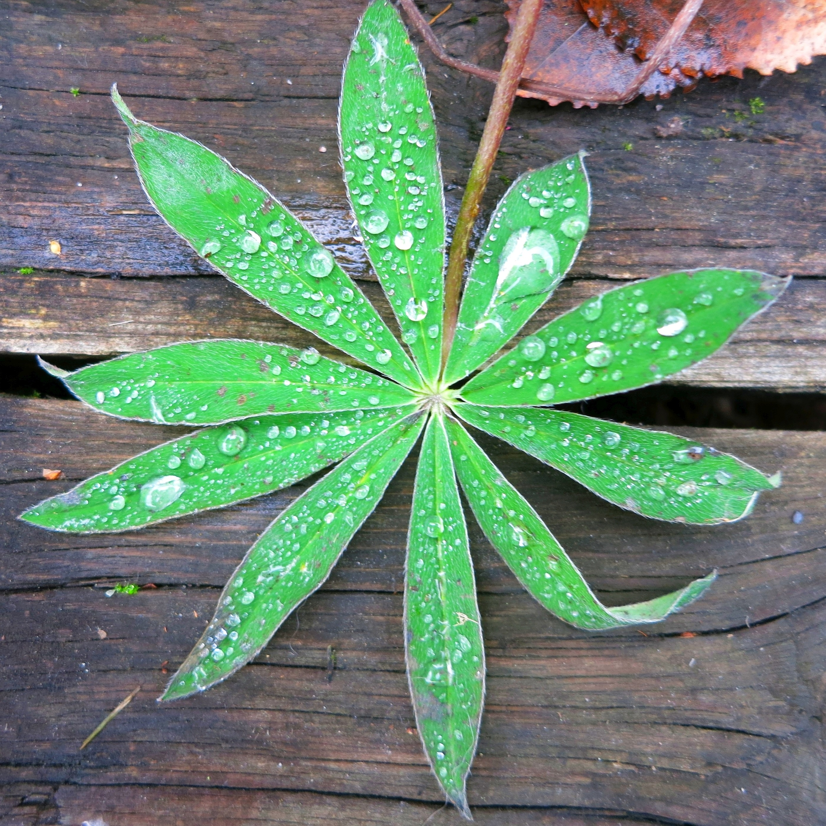 Leaves of frost tolerant alien species Lupinus polyphyllus are alive in late autumn (Hyvinkää, Finland).